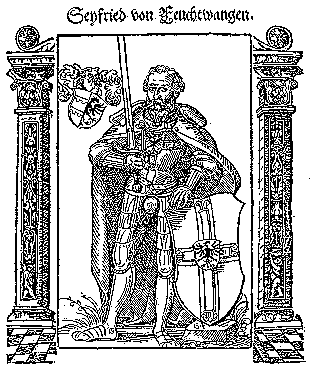 Siegfried von Feuchtwangen (died 1311) was the 15th Grand Master of the Teutonic Knights, serving from 1303 to 1311.